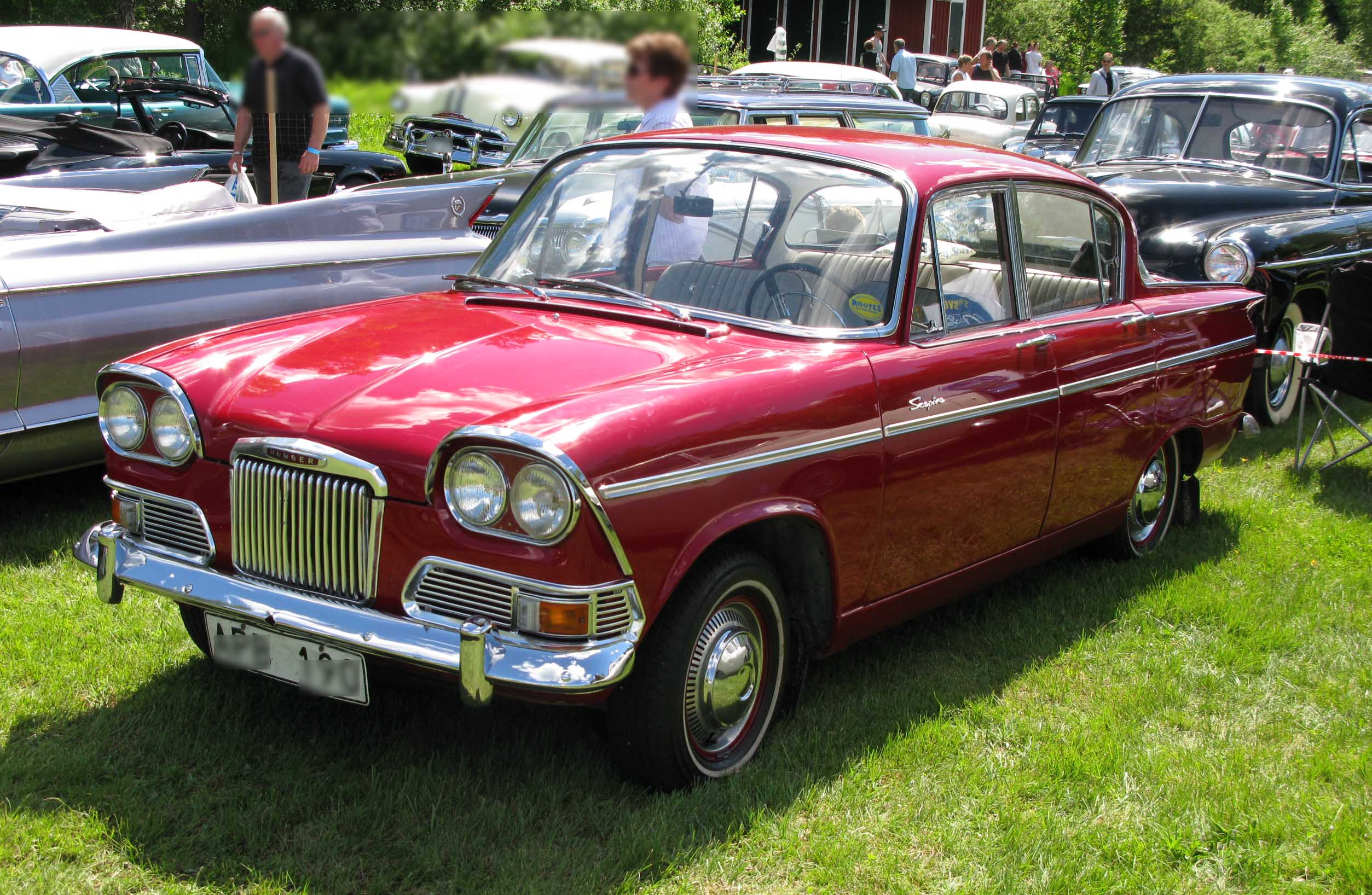 1964 Humber Sceptre.Event: Ånnaboda Classic Motor 2011